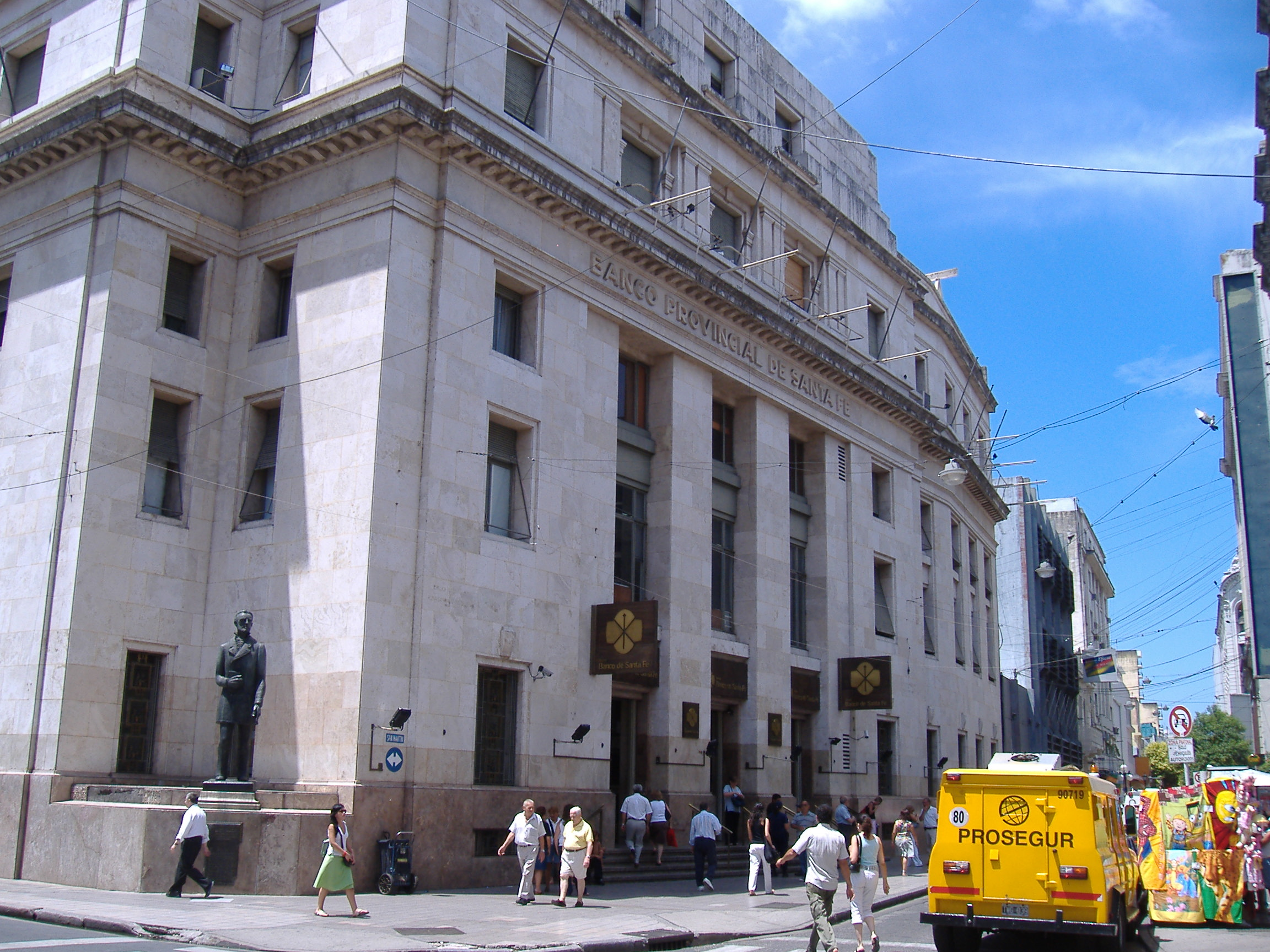 The central branch of the New Bank of Santa Fe (formerly Provincial Bank of Santa Fe) at the corner of San Martín St. and Santa Fe St. in Rosario, Santa Fe Province, Argentina.